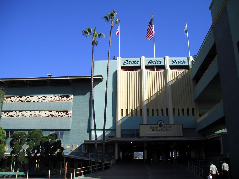 Entrance to wp:Santa Anita Park grandstands. Taken by Ellen Levy Finch (User:Elf) Feb 11 2006.